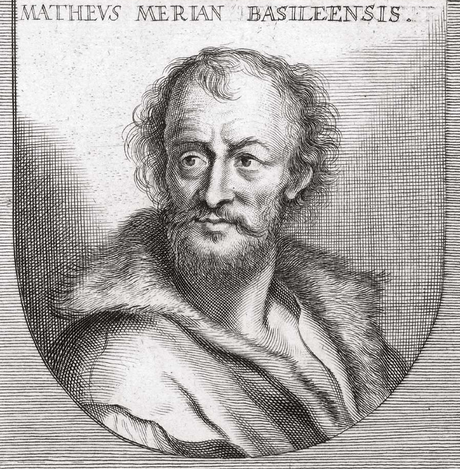 Matthäus Merian the Elder (1593-1650), German engraver